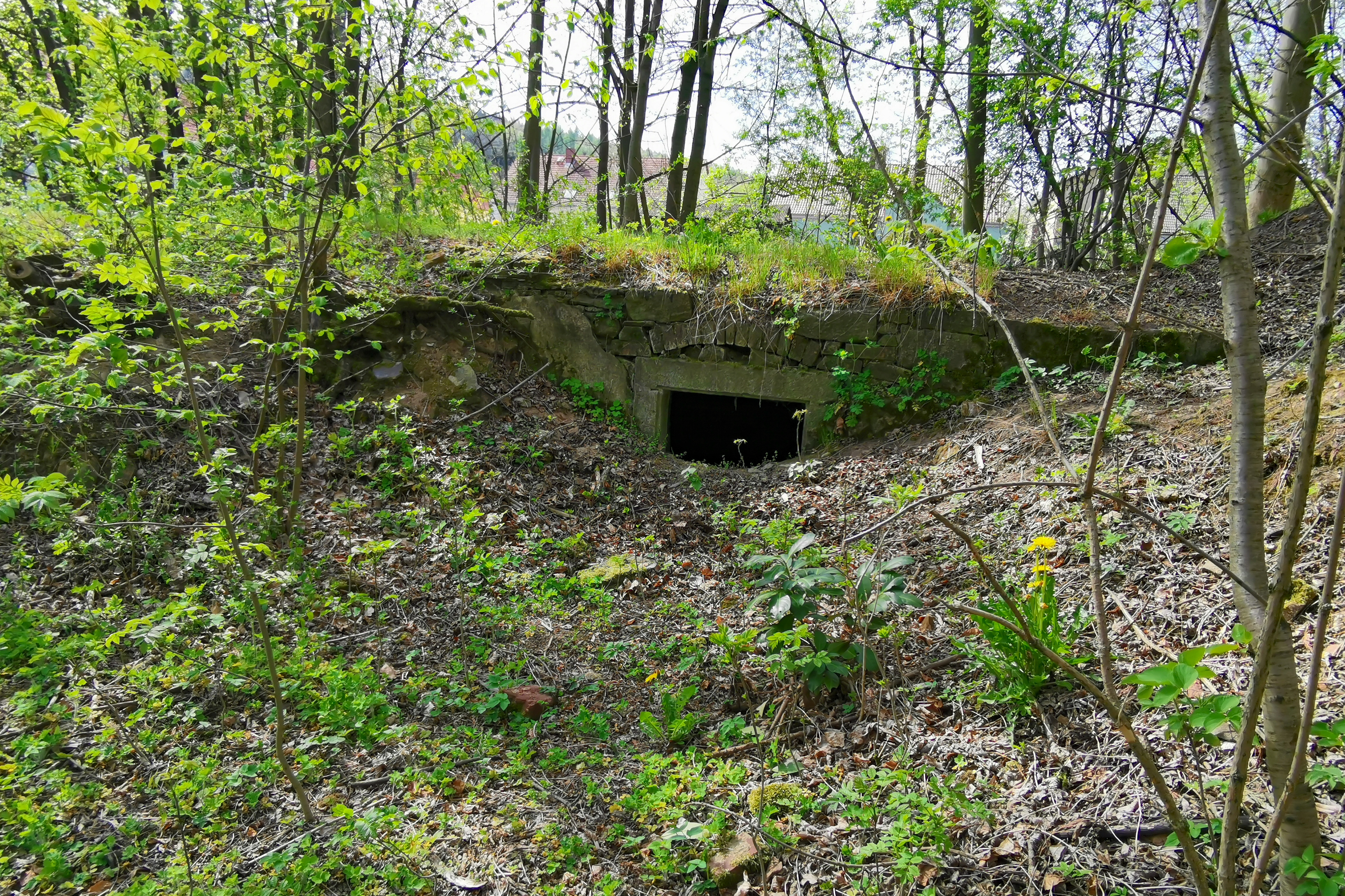 Hennersdorf (Kamenz, Saxony, Germany)